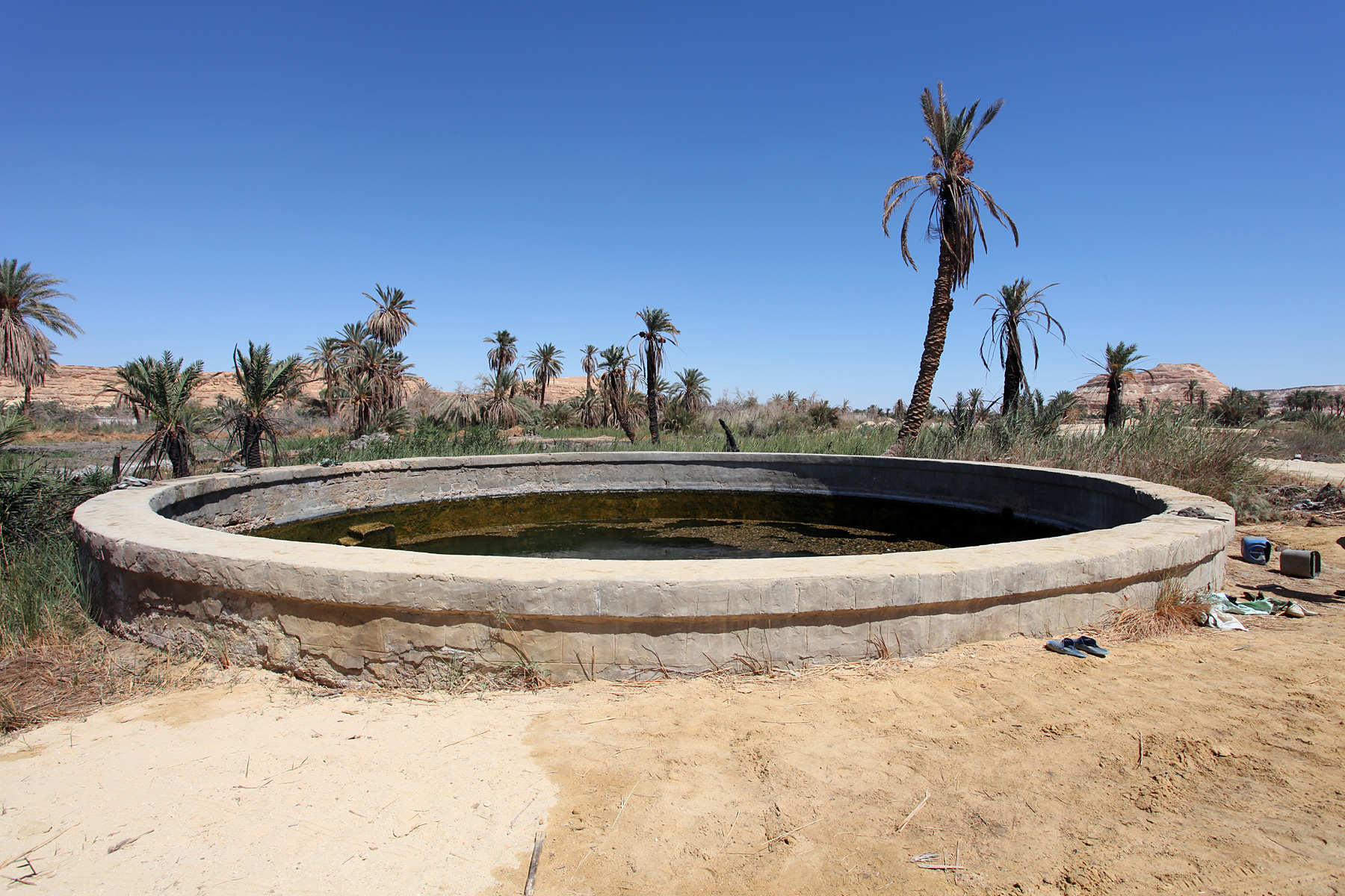 Well north of the village of Mishandid, Siwa depressen, Egypt